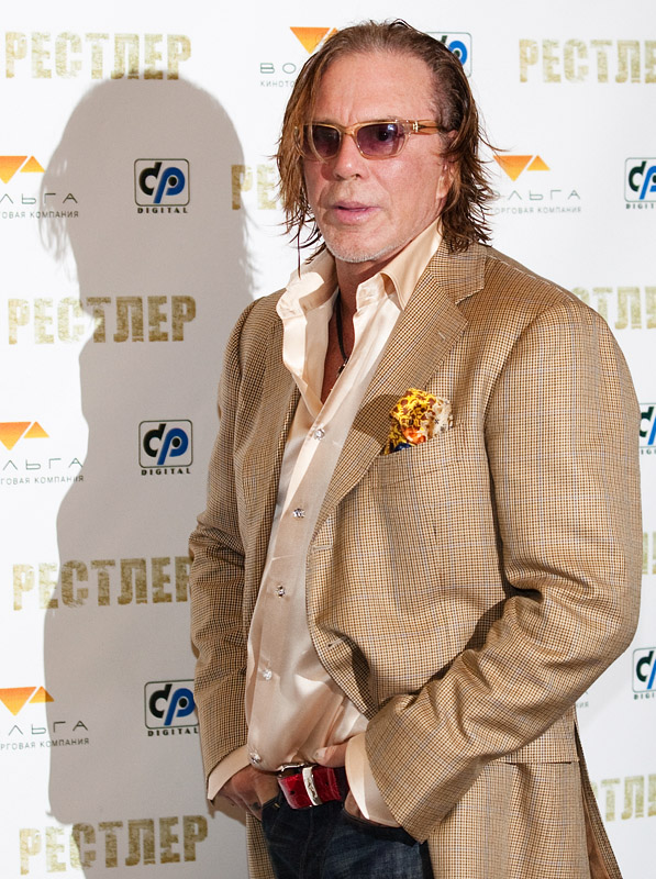 Mickey Rourke in Moscow Photo: Anton Belitsky